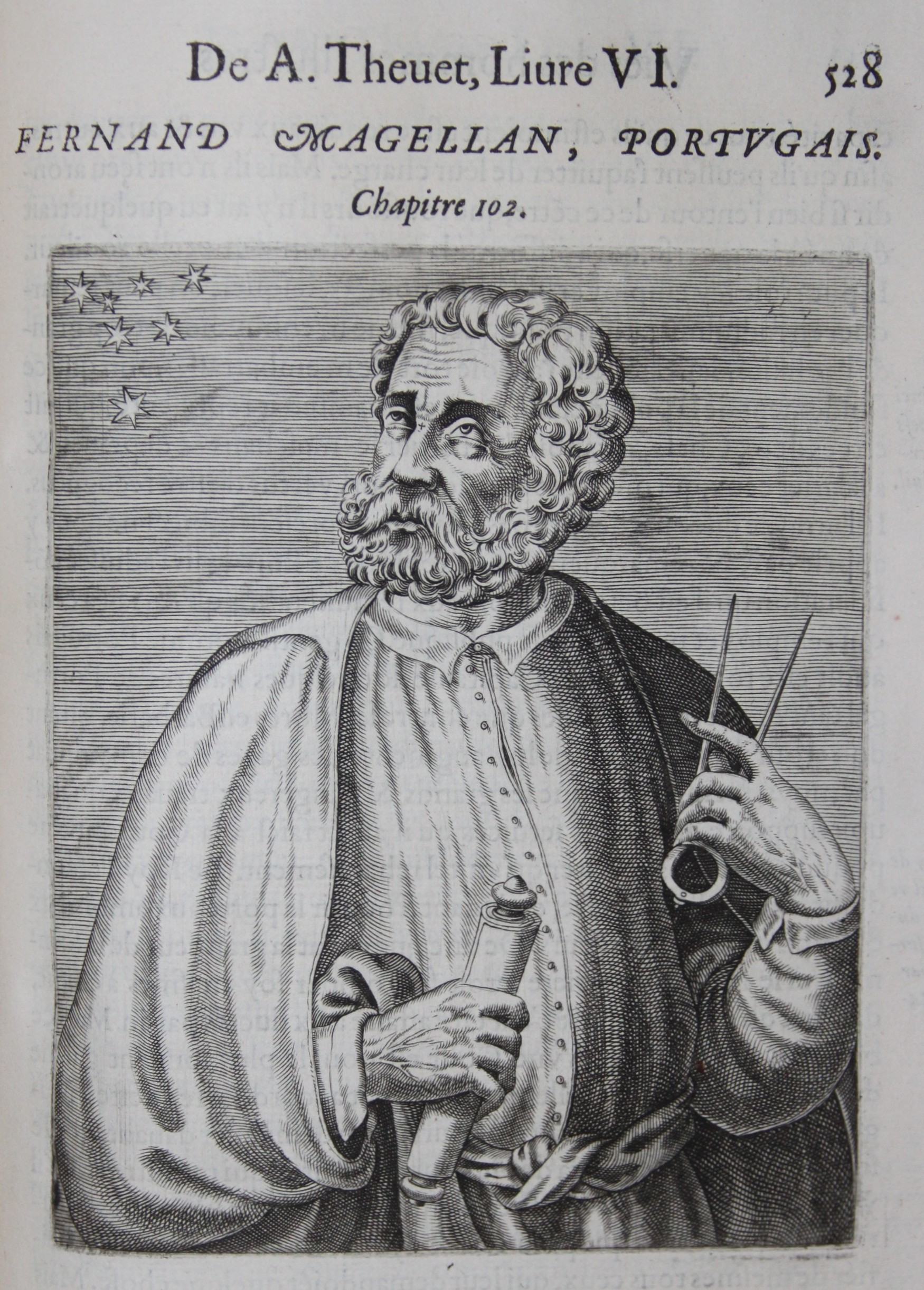 Magellan, Pourtraits et Vies des Hommes Illustres, André Thévet, Paris 1584